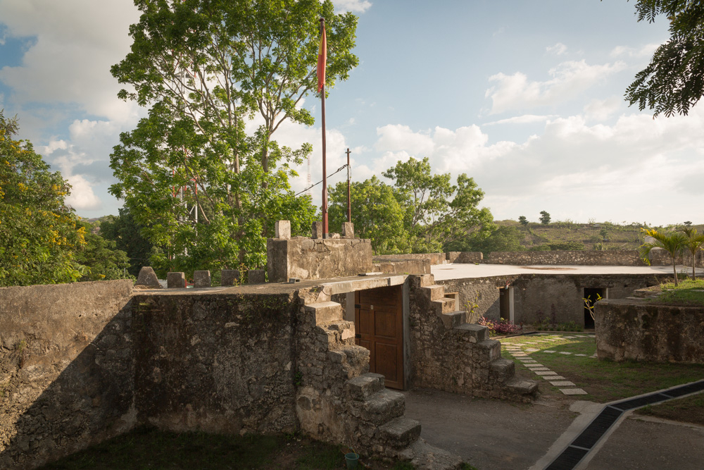 Balibo fortress entrance